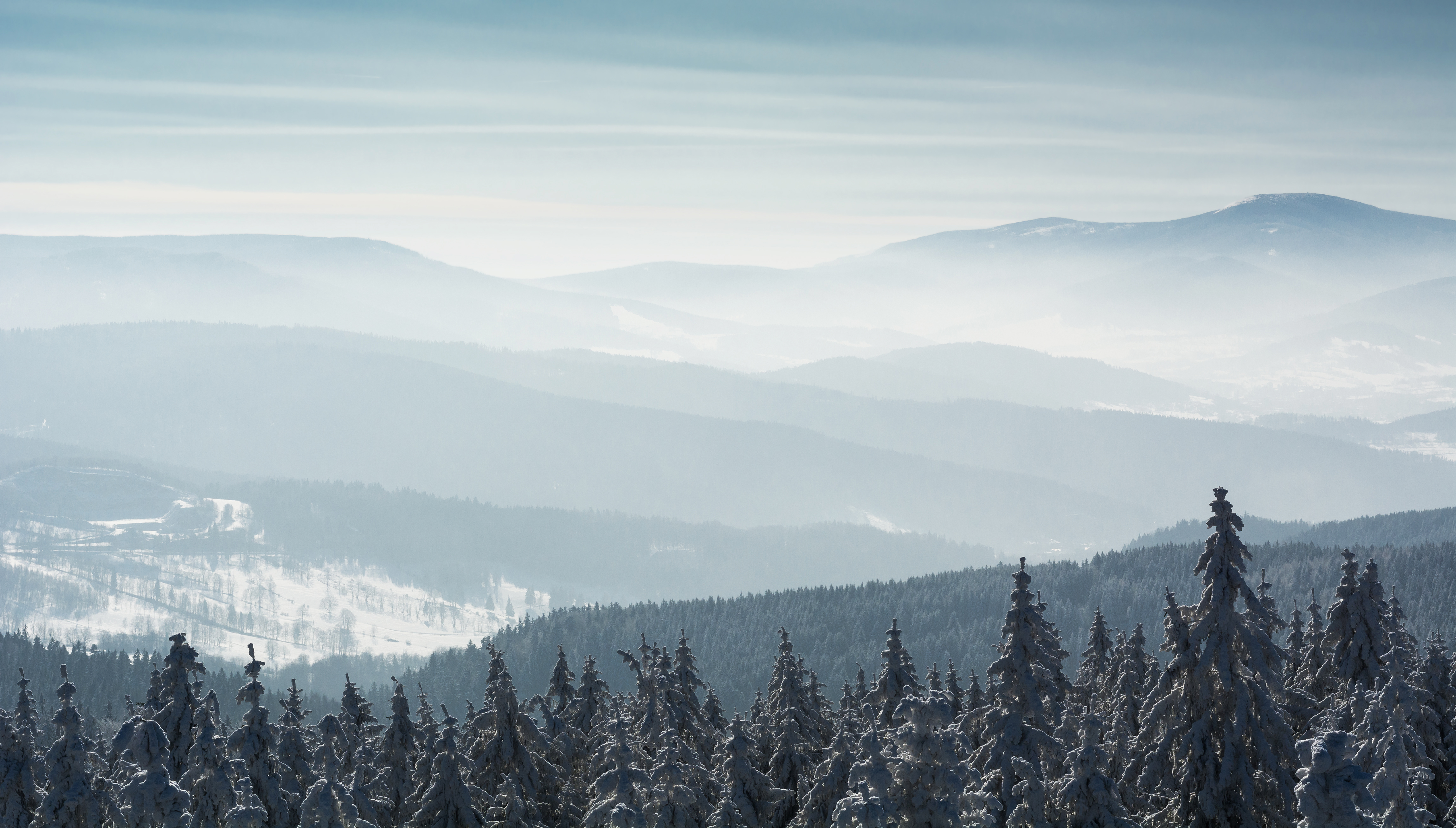 Golden Mountains (Sudetes), Poland, exposure from Borówkowa This is a photography of Natura 2000 protected area with ID PLH020096